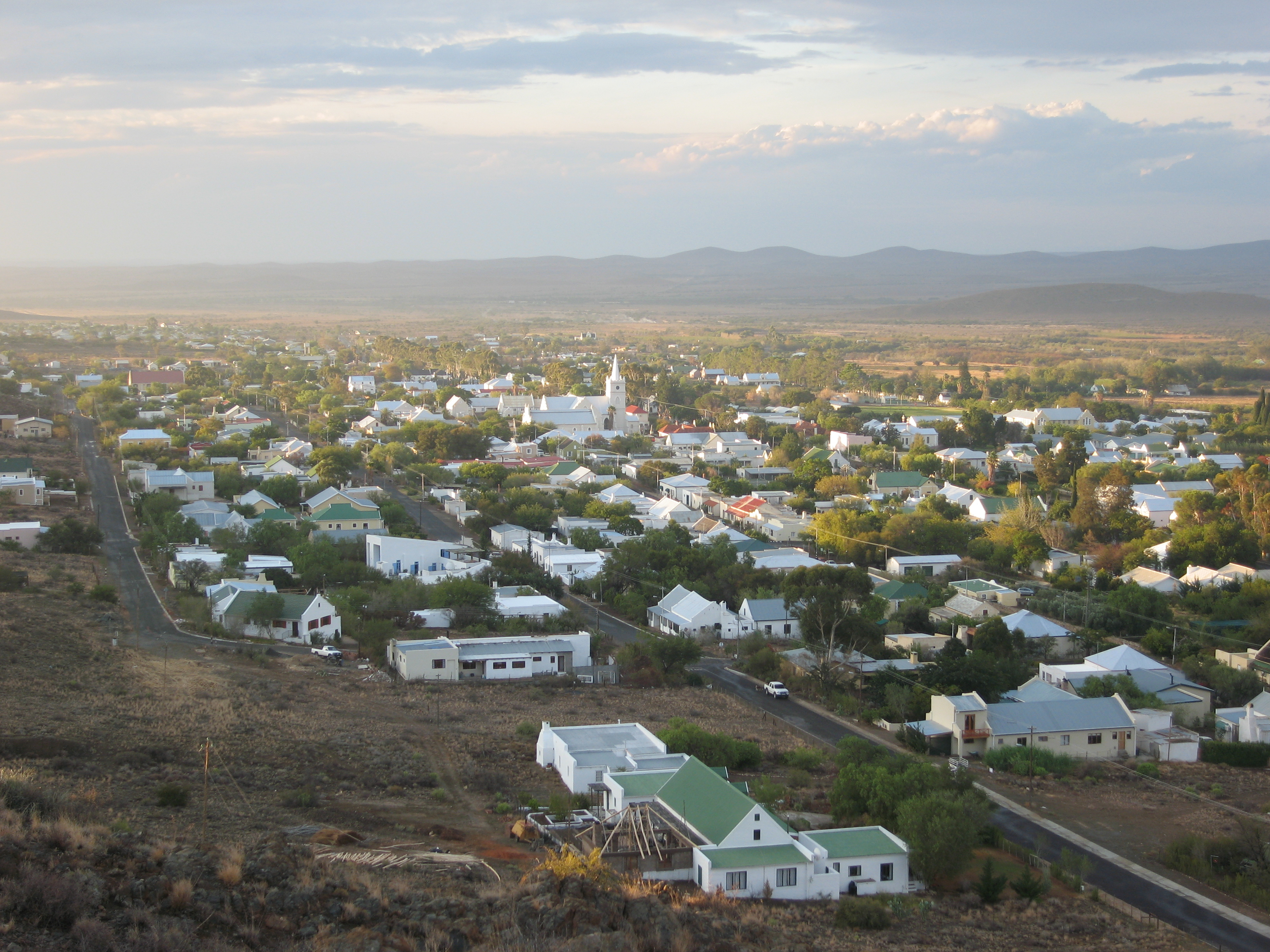 View over looking Prince Albert, Great Karroo, South Africa from the towns "Koppie" looking North